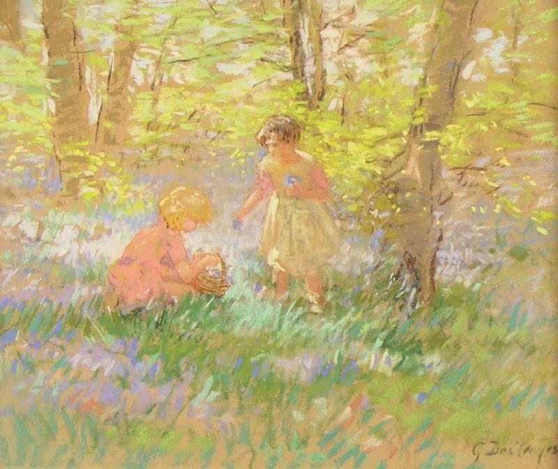 Gertrude Des Clayes children gathering bluebells say 1920